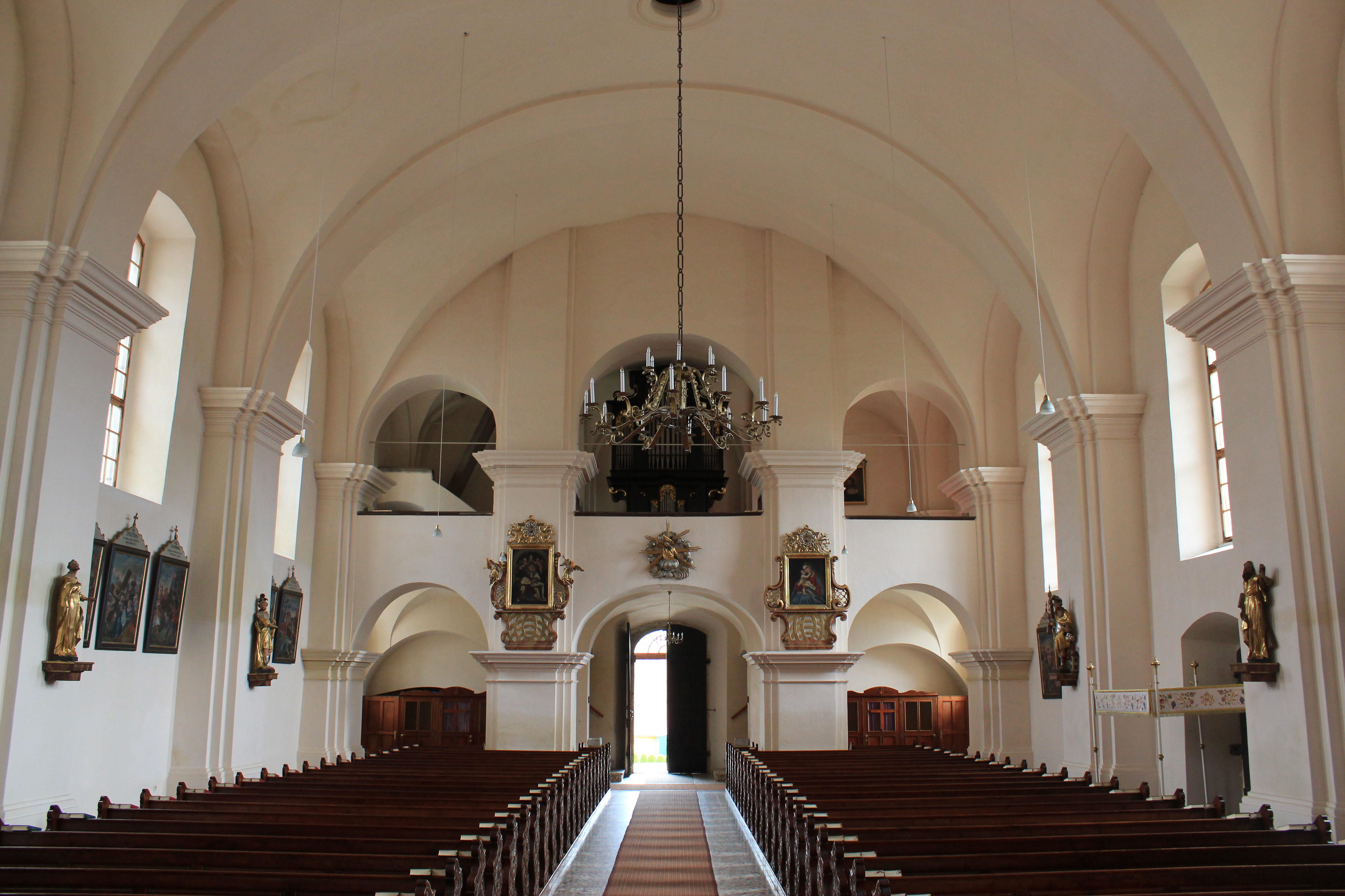 Subsidiary church St. Kunigund in Bad Sankt Leonhard